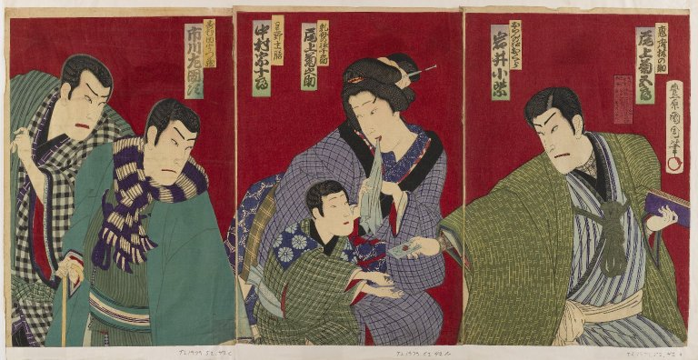 Kabuki Scene from "Ningen Banji Kane no Yononaka" (Money is Everything in This World) after Edward Bulwer-Lytton' s "Money" Onoe Kikugorō V (right) as Efu Rin'nosuke (Evelyn), Iwai Komurasaki (center) as Okura (Clara) and Ichikawa Sadanji I (left) as Sunada Utsuzō (Dudley Smooth)